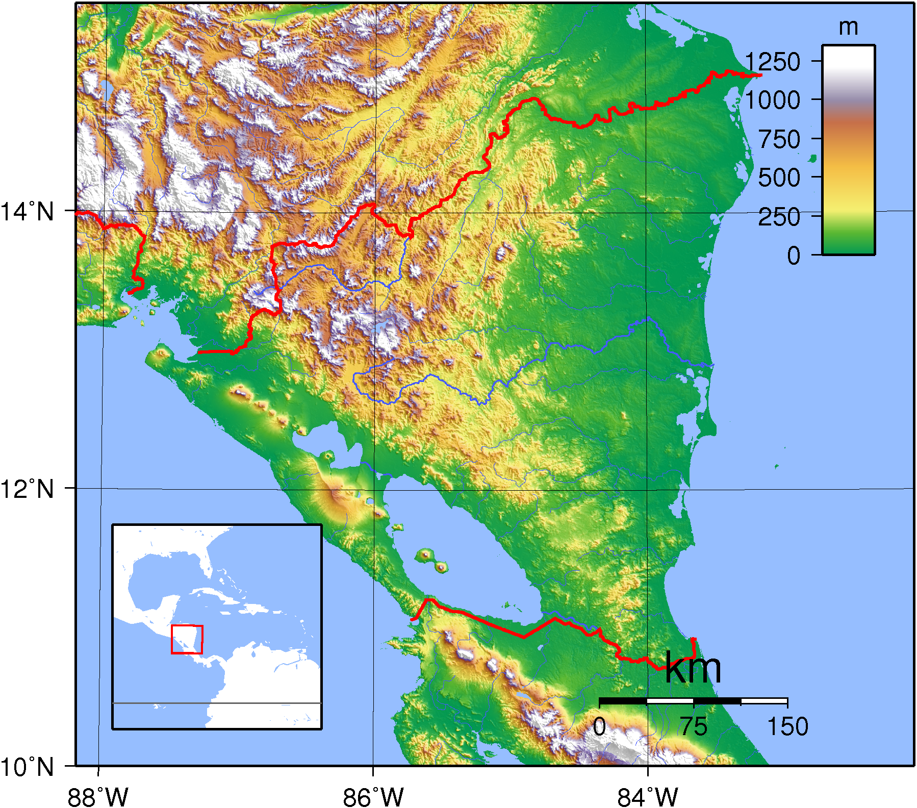 Topographic map of Nicaragua. Created with GMT from SRTM data.